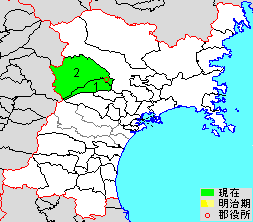 Map of Kami District, Miyagu, Japan